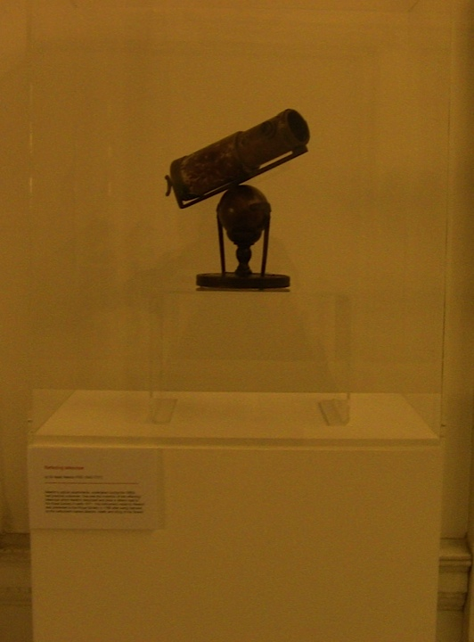 A reflecting telescope belonging to Sir Issac Newton, housed in the Royal Society building in London, which hosted the 2012 Ada Lovelace event for Wikimedia UK